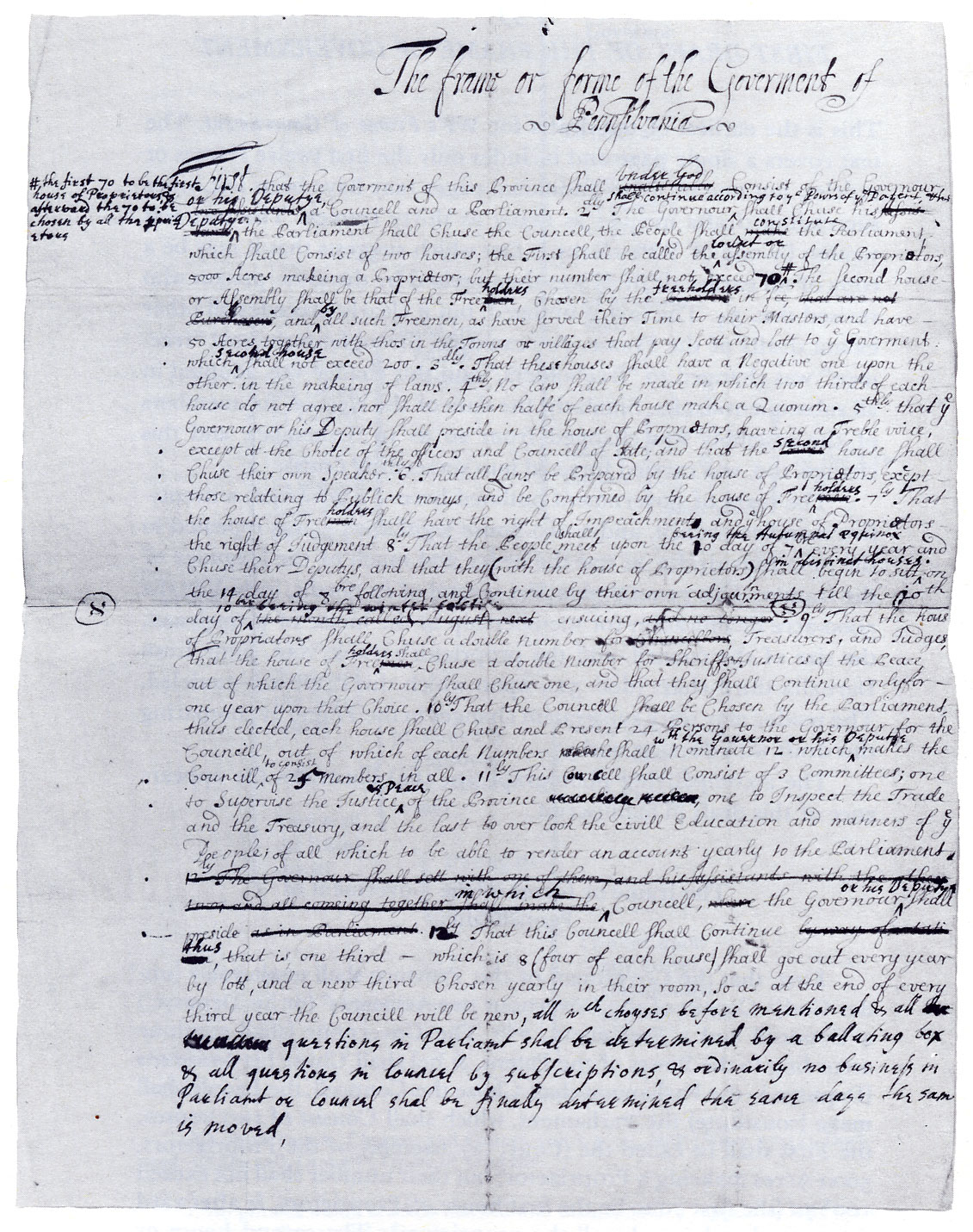 The Papers of William Penn, Volume Two (1680–1684), University of Pennsylvania